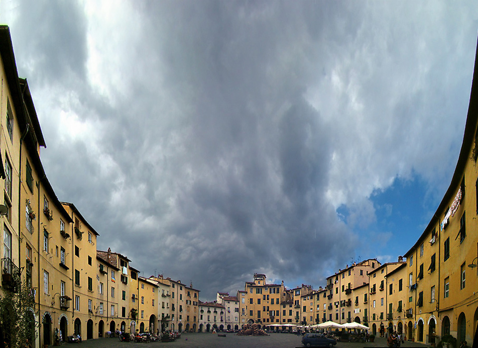 Piazza dell'Anfiteatro, Lucca, Tuscany, Italy.